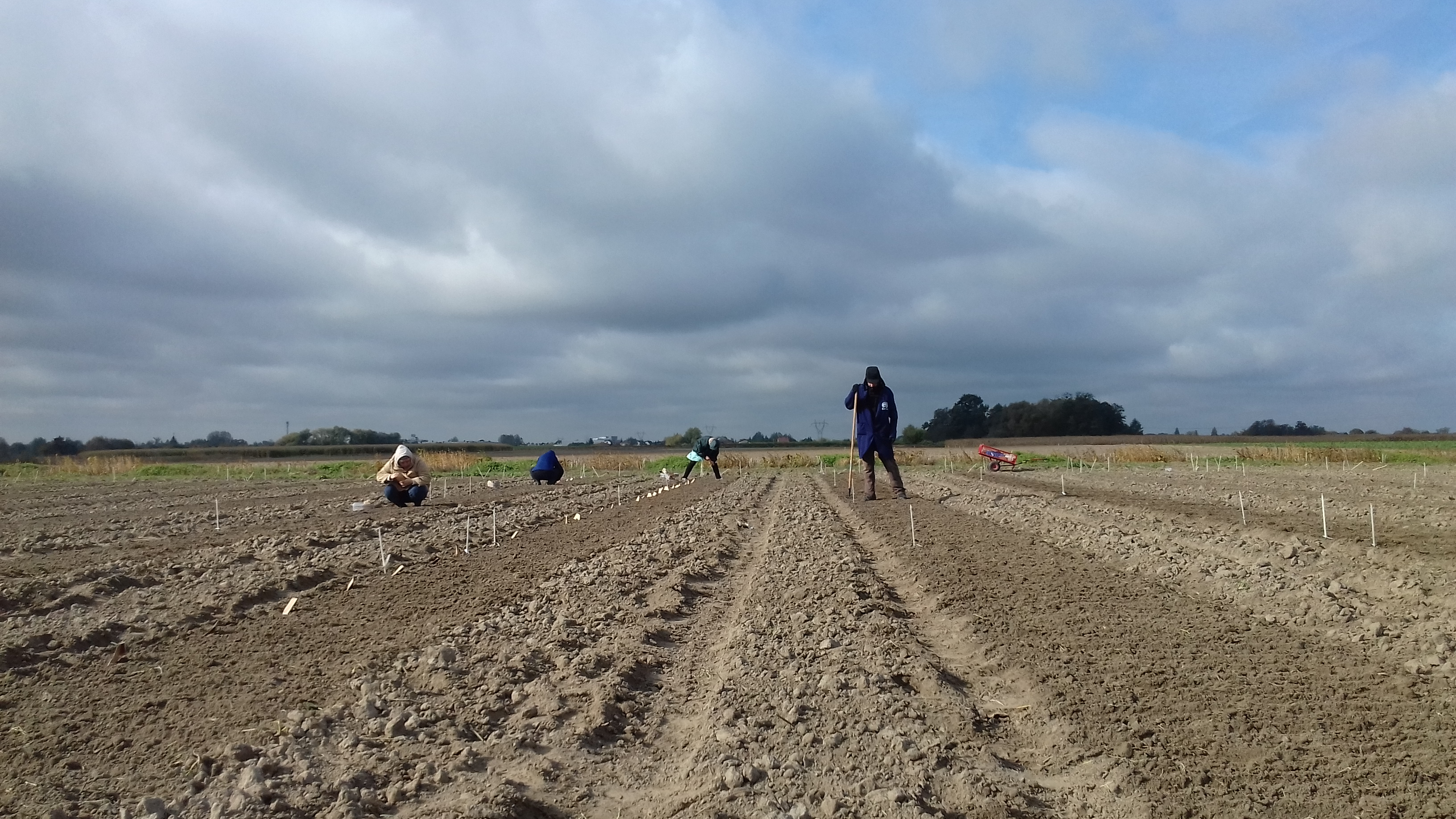 Young scientists from IHAR-PIB Poland set up experimental plots for research in the field of agromony. Spread bags contains cereal grains of various varieties and genetic lines.